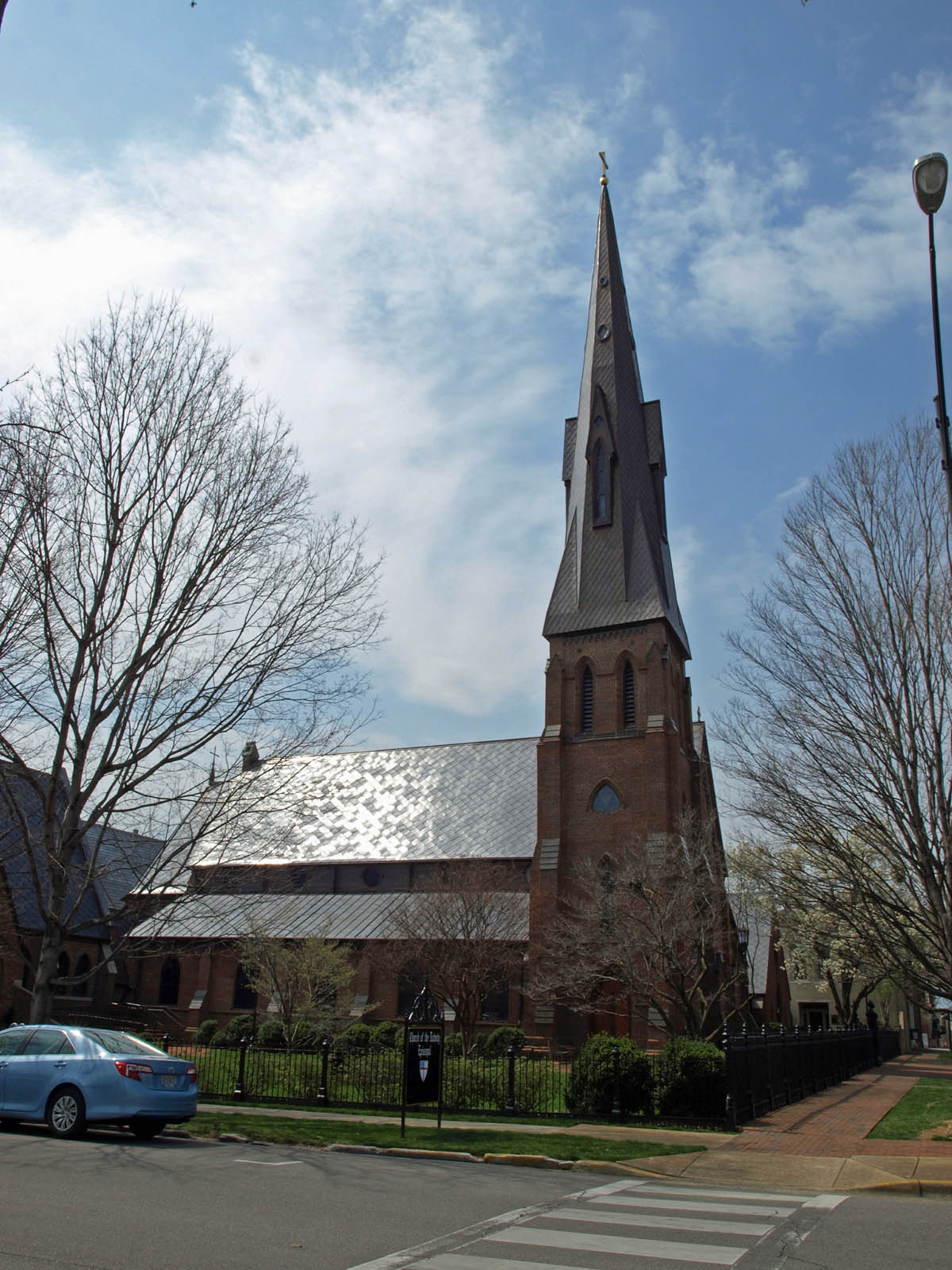 The Episcopal Church of the Nativity in Huntsville, Alabama, is listed on the National Register of Historic Places.